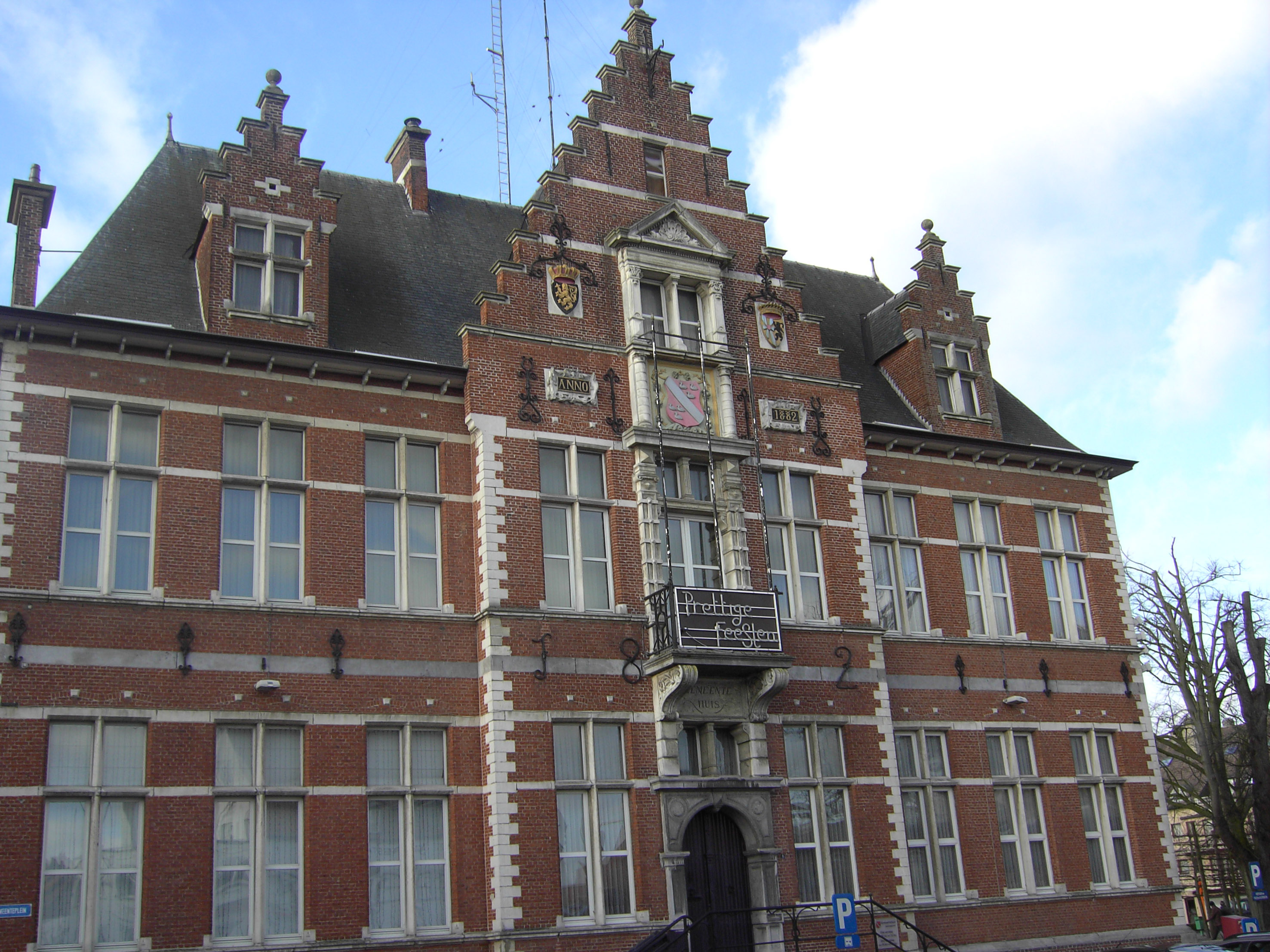 Oostkamp - Town hall